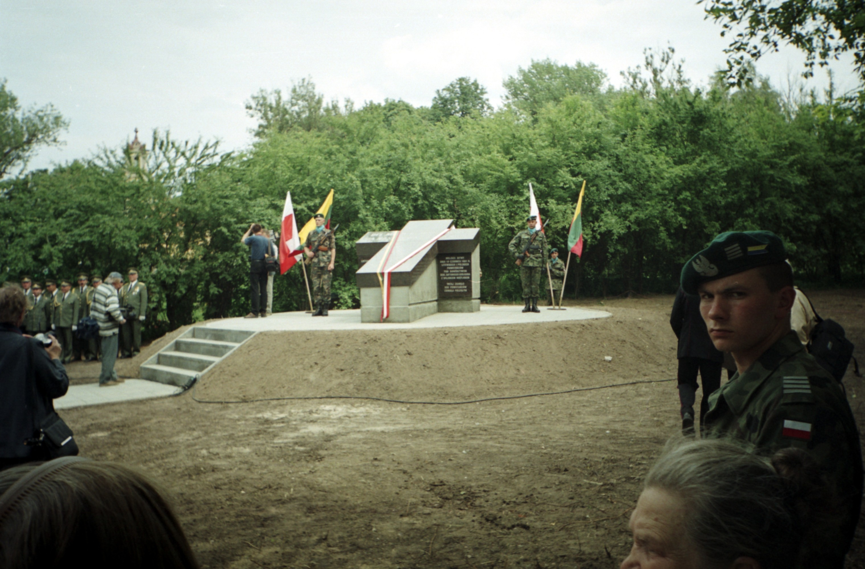 Opening of memorial of battle in Paneriai 1831-06-19 during November uprising, Vilnius, Lithuania